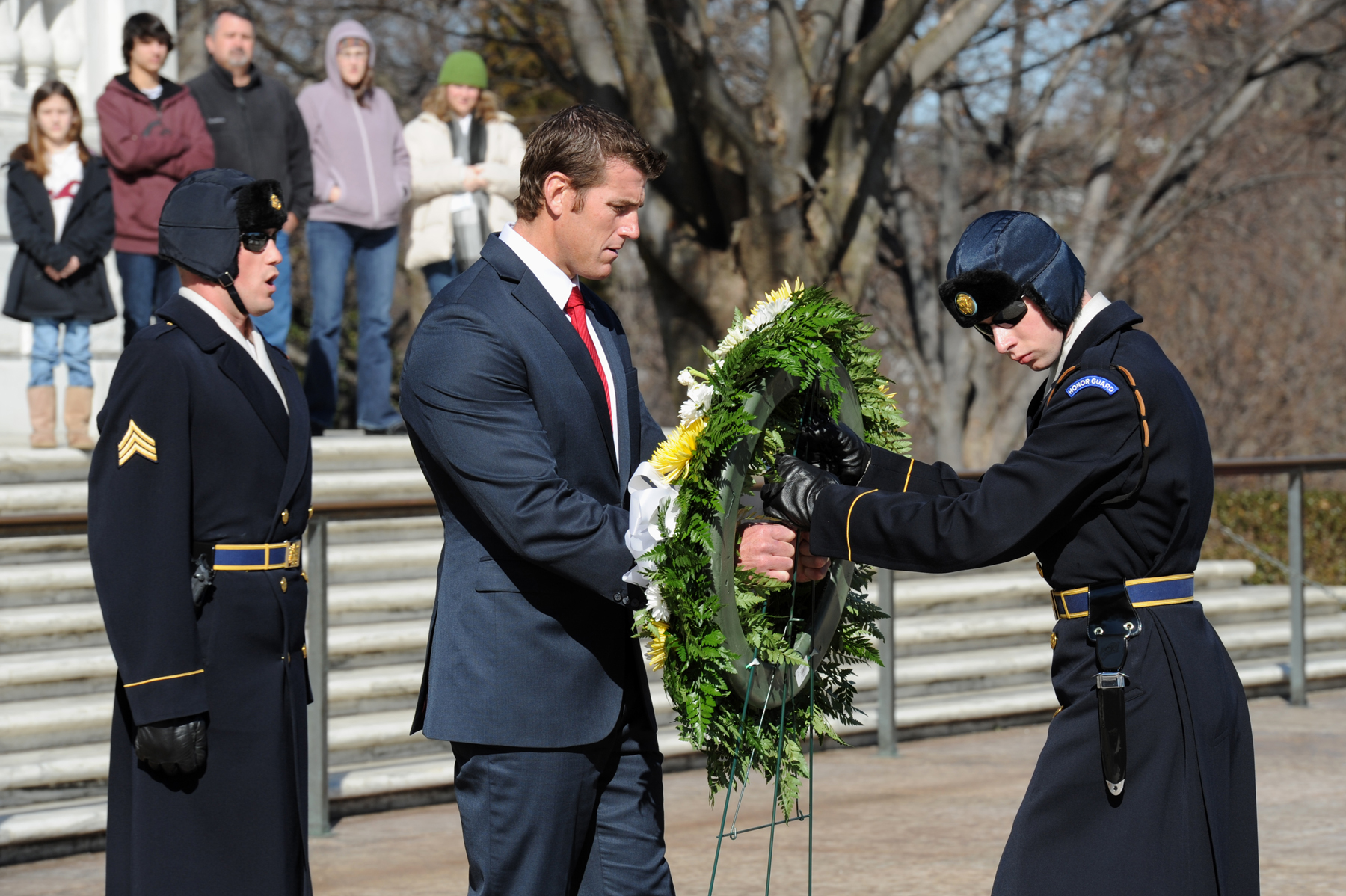 Victoria Cross Recipient Wreath Laying Ceremony, hosted by Mr. James R. Gemmell, Arlington’s, Deputy Superintendent, at the Tomb of the Unknown Soldier, on February 13, 2012, at Arlington National Cemetery, Joint Base Myer- Henderson Hall, Fort Myer, VA.( U.S. Army Photo by Mr. Gregory L. Jones / AMVID )